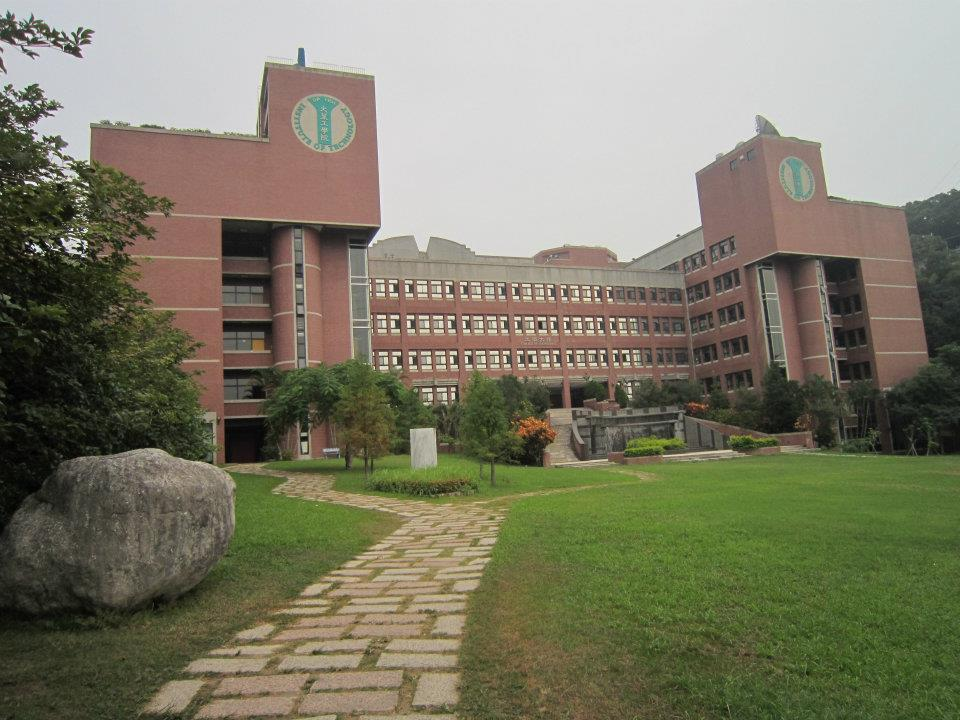 Entrance from J building